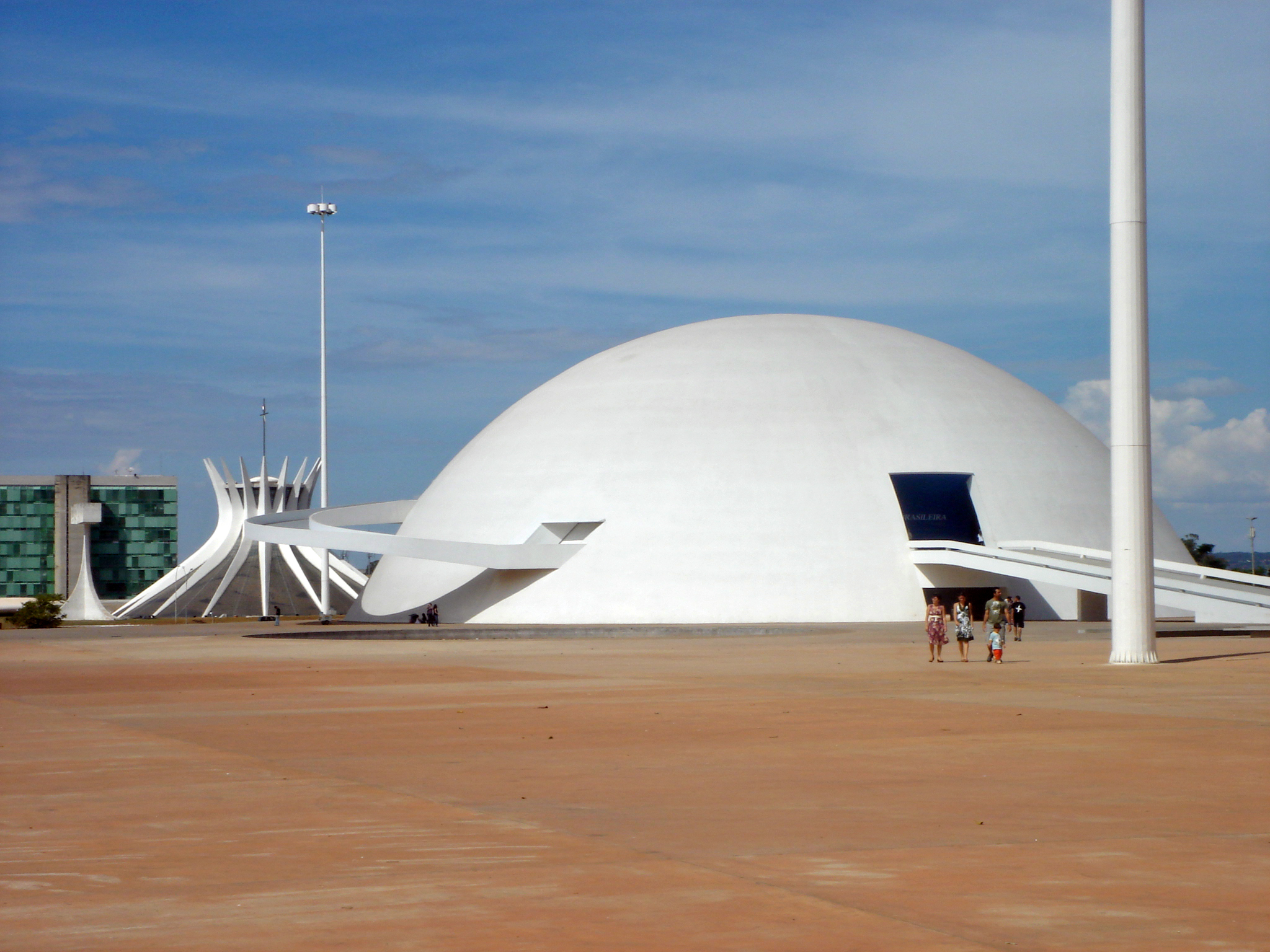 Brazil's National Museum, Architect: Oscar Niemeyer. Inaugurated December, 2006. Brasilia's Cathedral in the background.